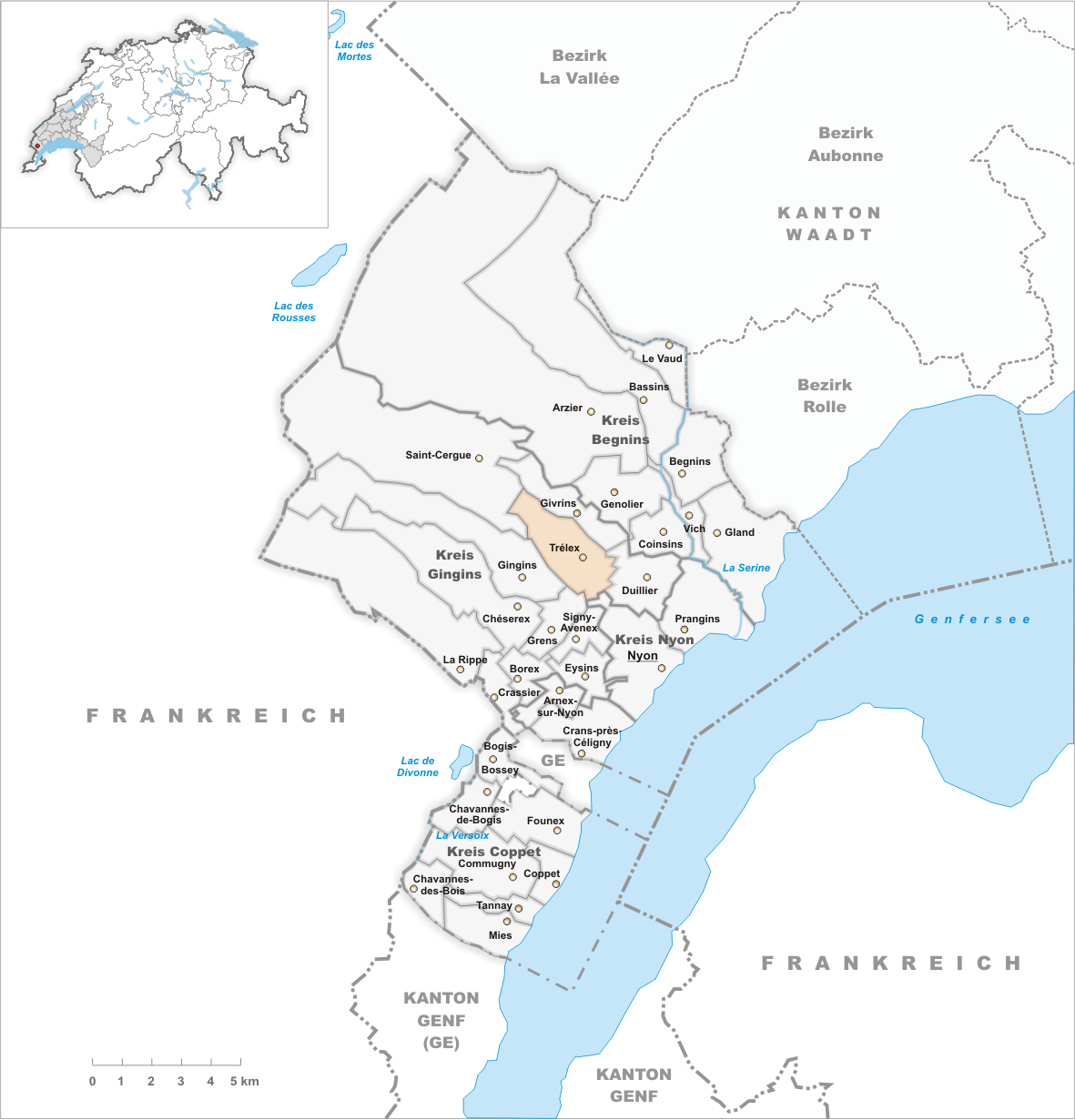 Municipality Trélex